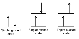 Intersystem Crossing diagram